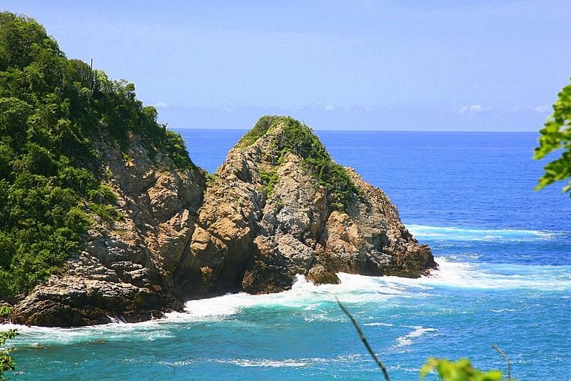 Image title: Huatulco coastline Image from Public domain images website